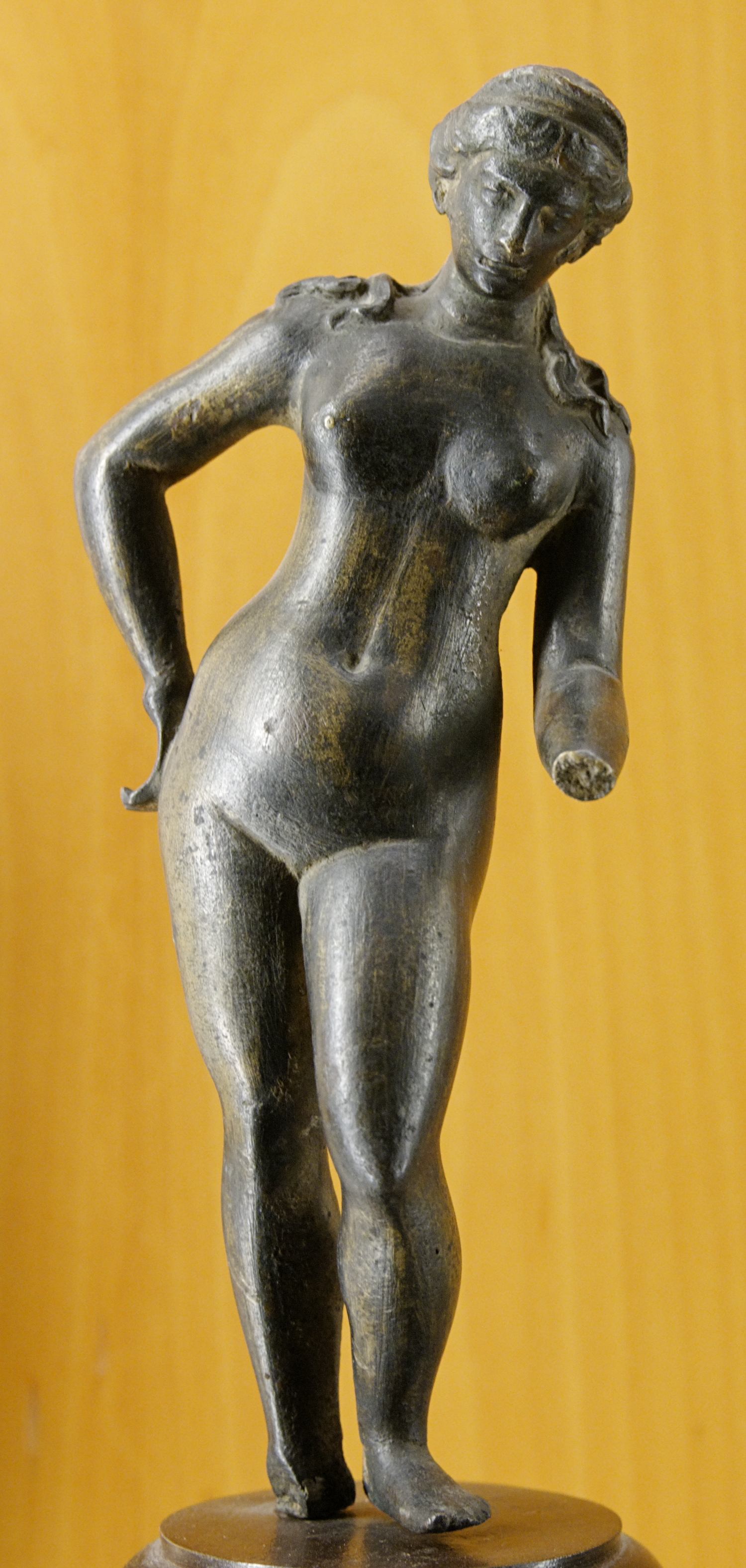 Venus, Ancient Roman bronze figurine.